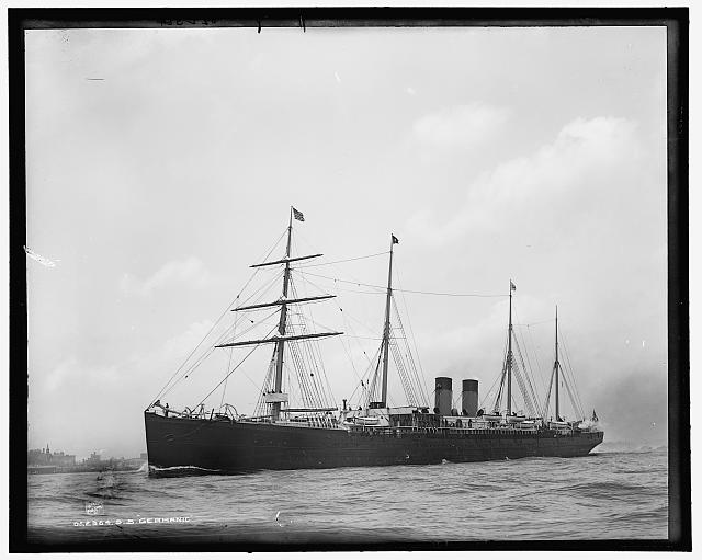 SS Germanic (1875) between 1890 and 1900 p1